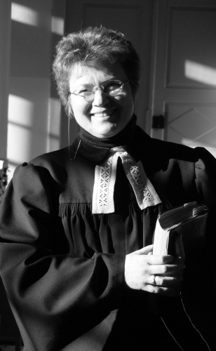 Rev. Wiera Jelinek